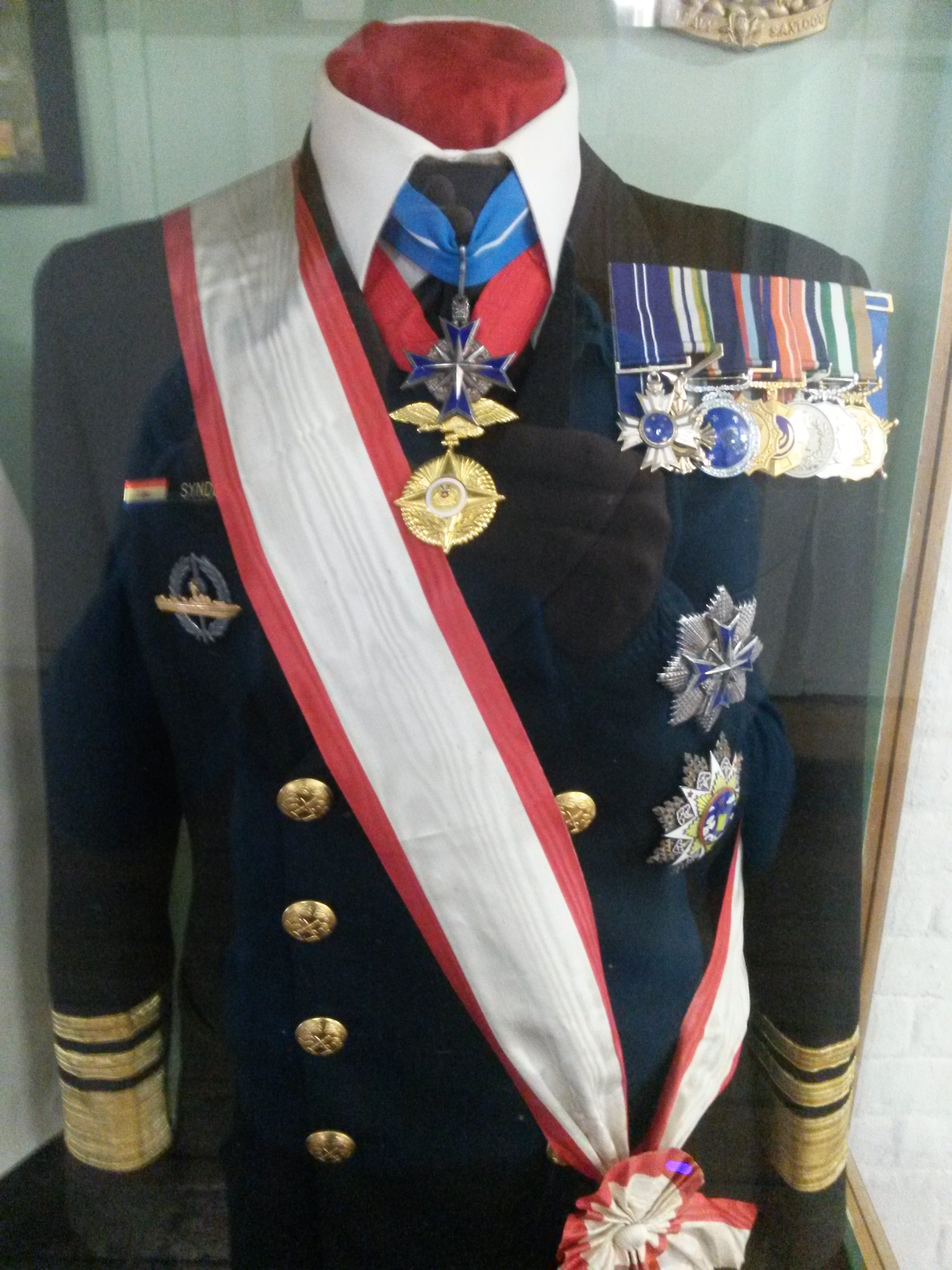 Uniform of Vice Admiral Syndecombe at the SA Naval Museum